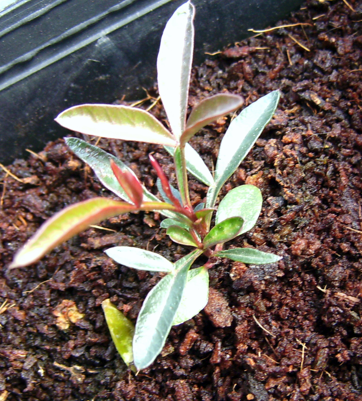 Pistacia lentiscus six month old plantule, from seed in Barcelona